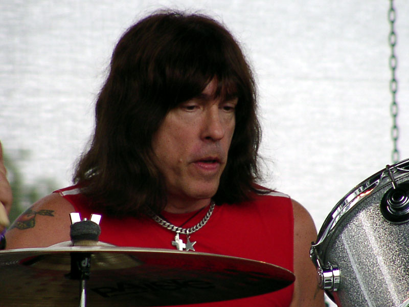 Marky Ramone performing with his band at Wacken Open Air 2005.